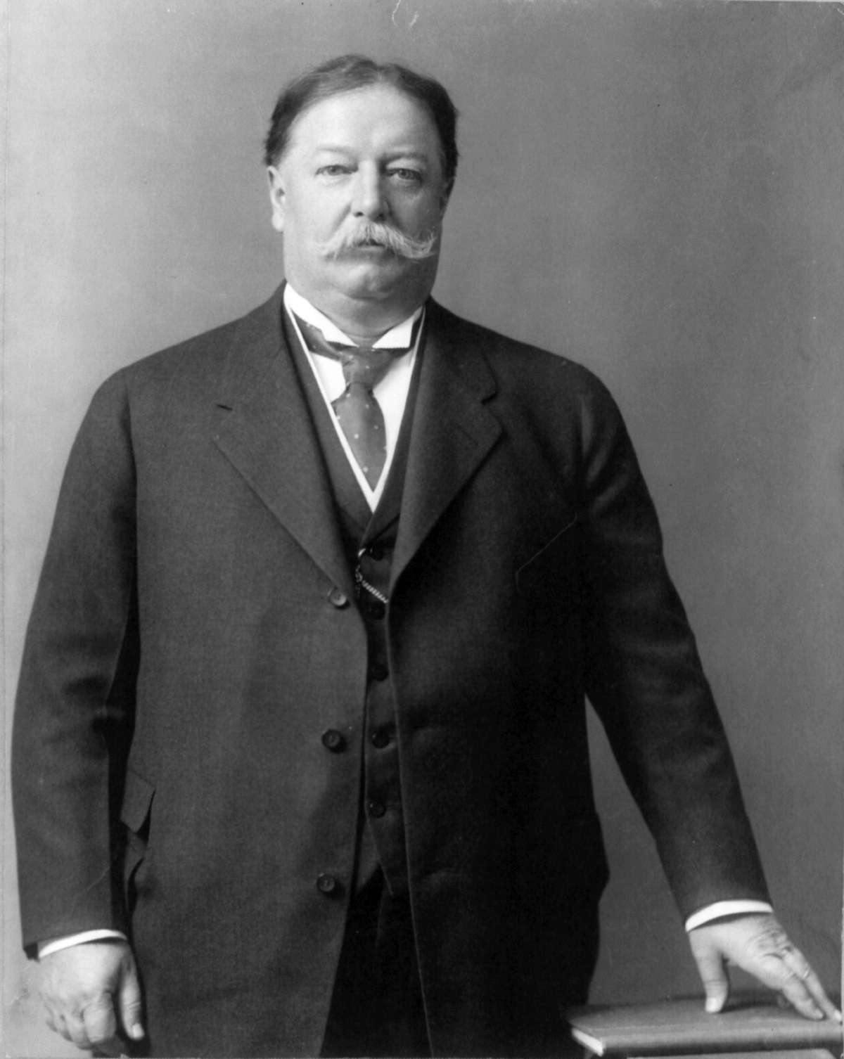 William Howard Taft. Half length, standing, facing slightly right; left hand on book.